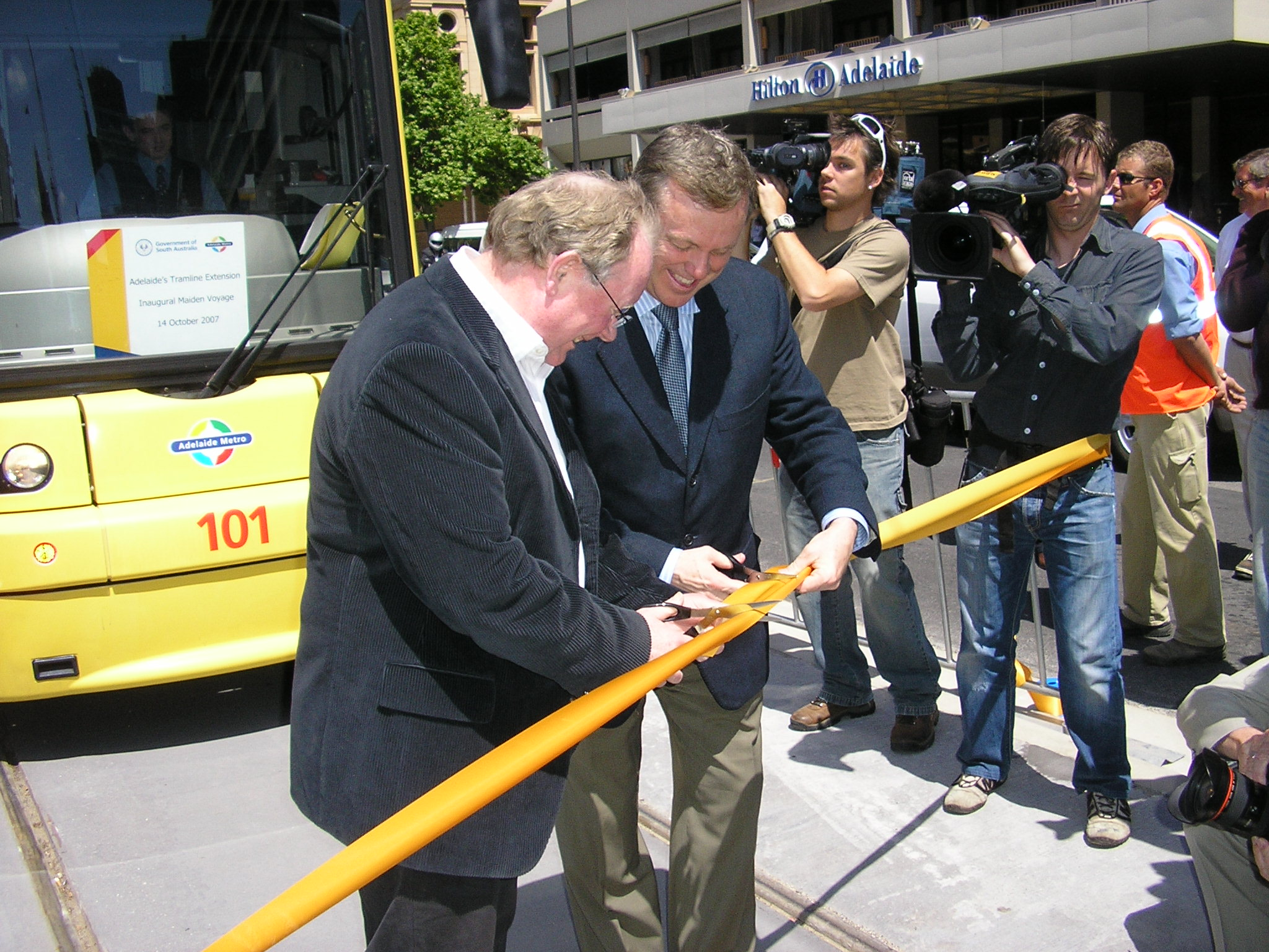 Glenelg Tram in Victoria Square, Adelaide at the opening of the tramline extension by the Premier of South Australia, Mike Rann, and the Minister of Transport, Pat Conlon.